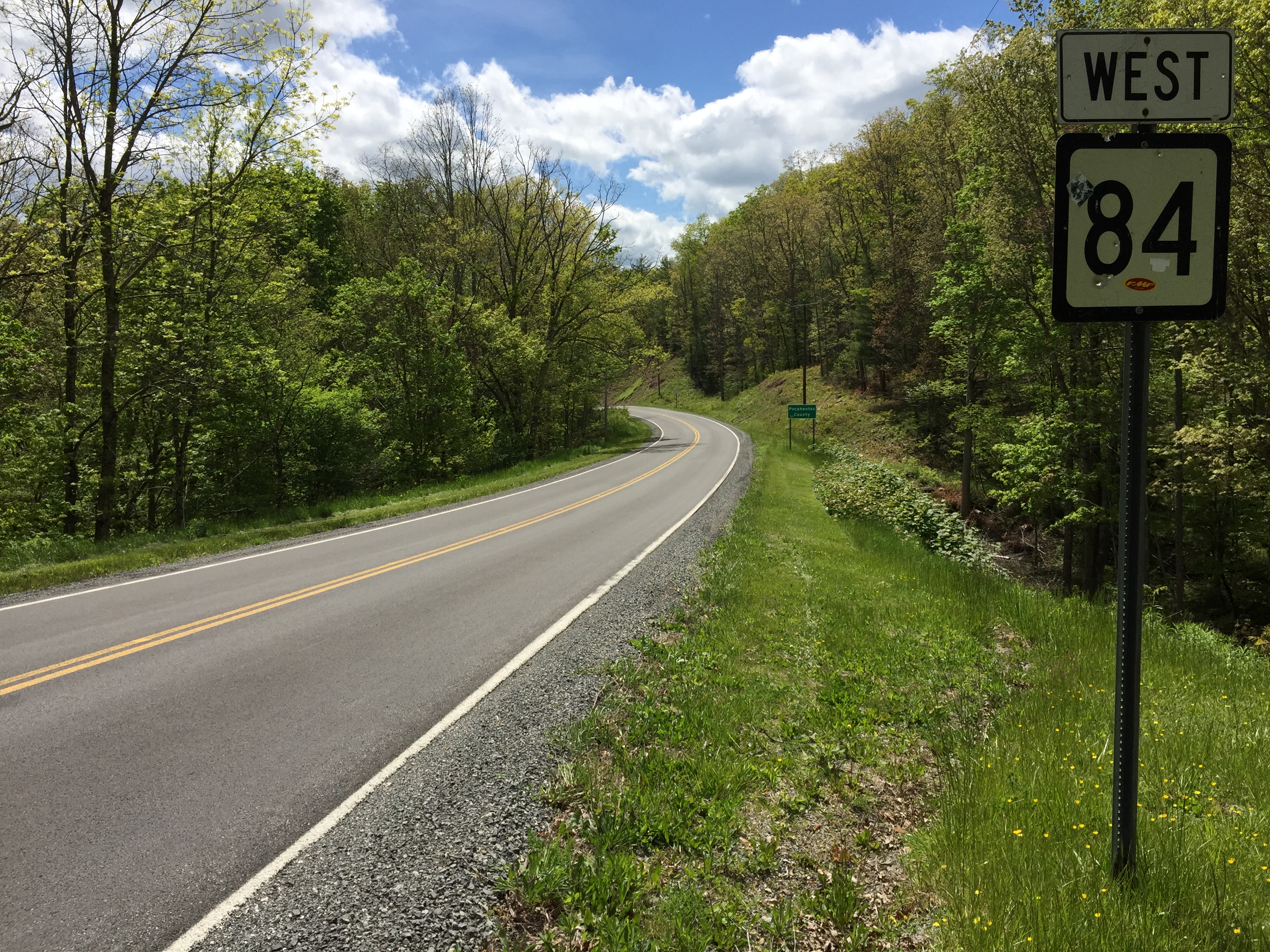 View west along West Virginia Route 84 in eastern Pocahontas County, West Virginia